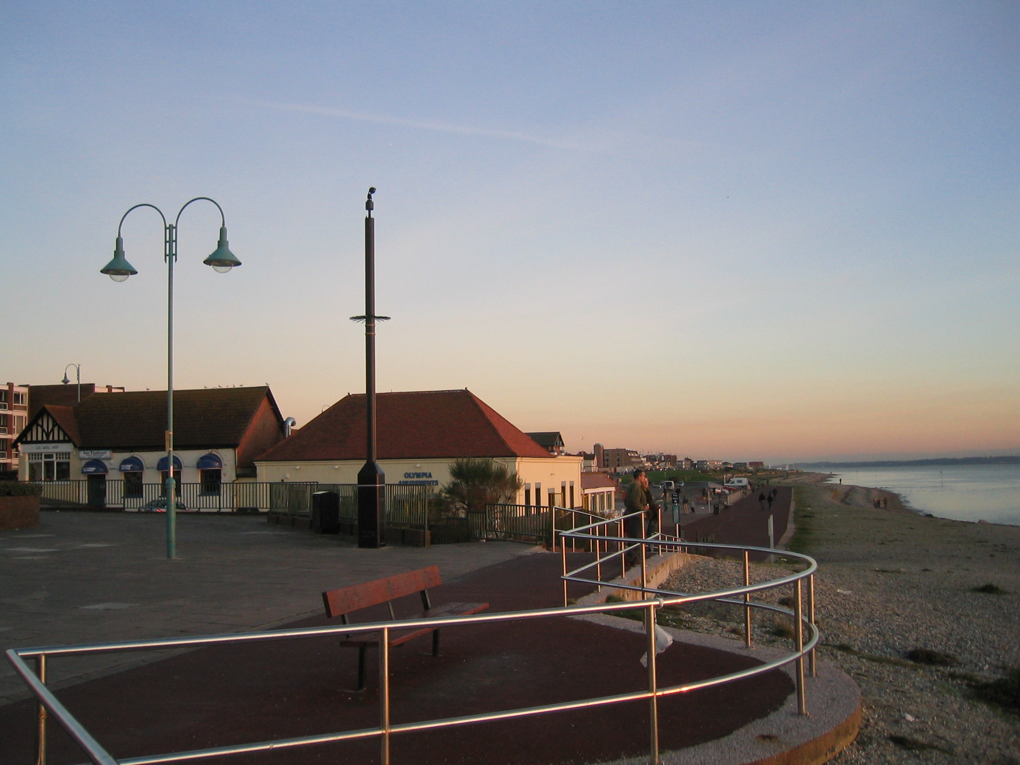 The seafront and beach at Lee-on-the-Solent, Hampshire, UK. Photo taken by Alan Ford, 2005-11-20.